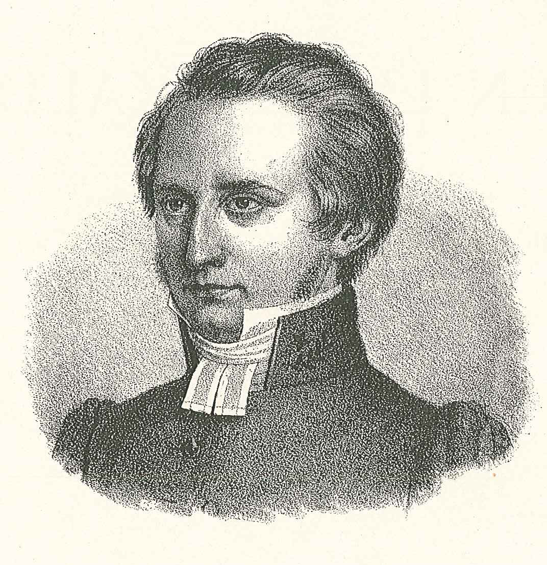 Assar Lindeblad (1800-1848), Swedish clergyman and poet.